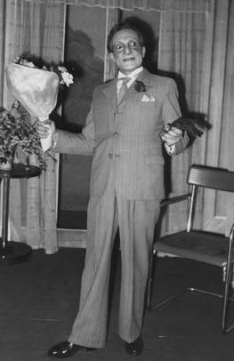 Juan Dardés-actor argentino